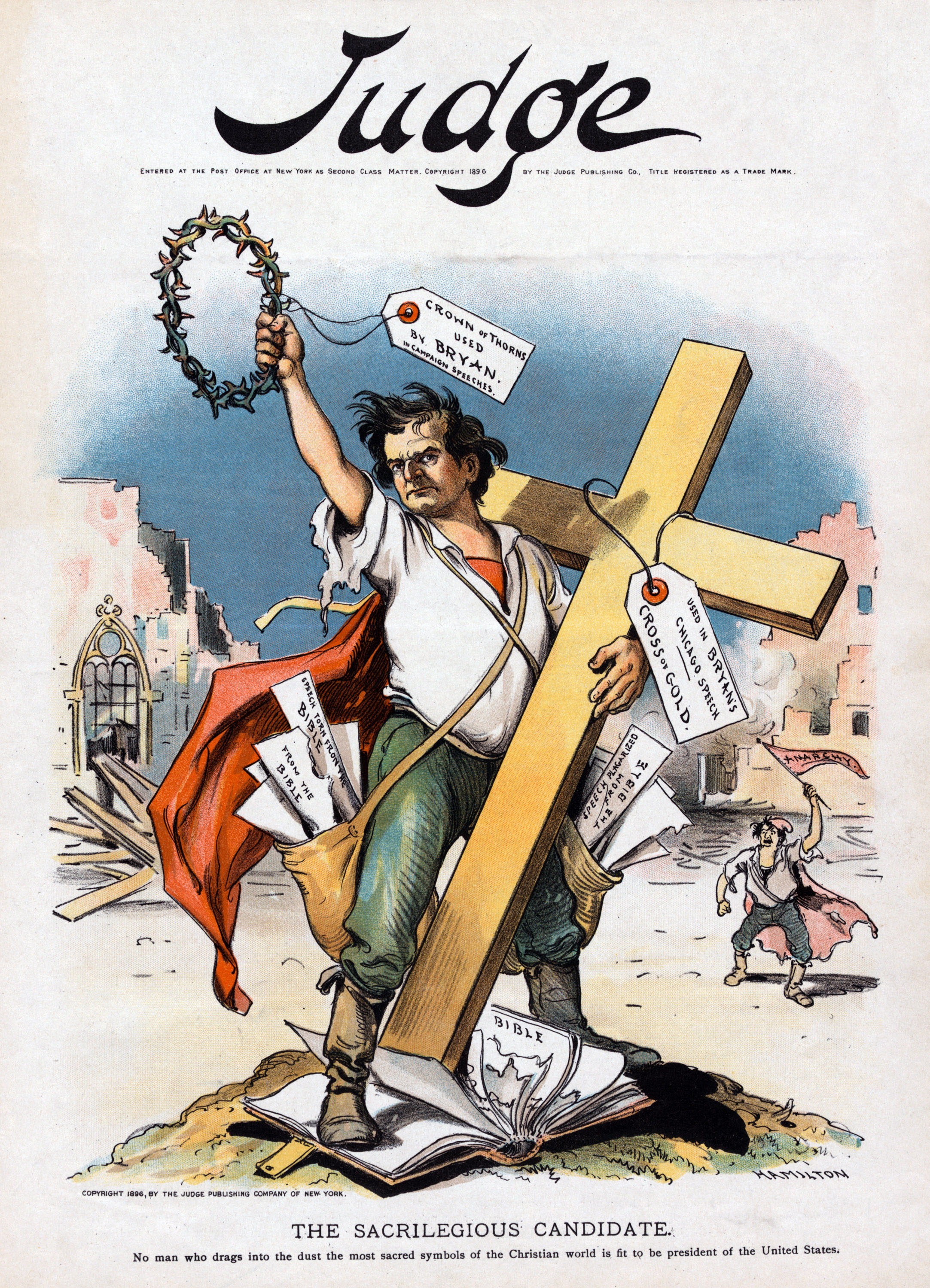 American cartoon by Grant Hamilton, 1896, on William Jennings Bryan's 'Cross of Gold' speech at the Democratic National Convention in Chicago, which won Bryan the presidential nomination.